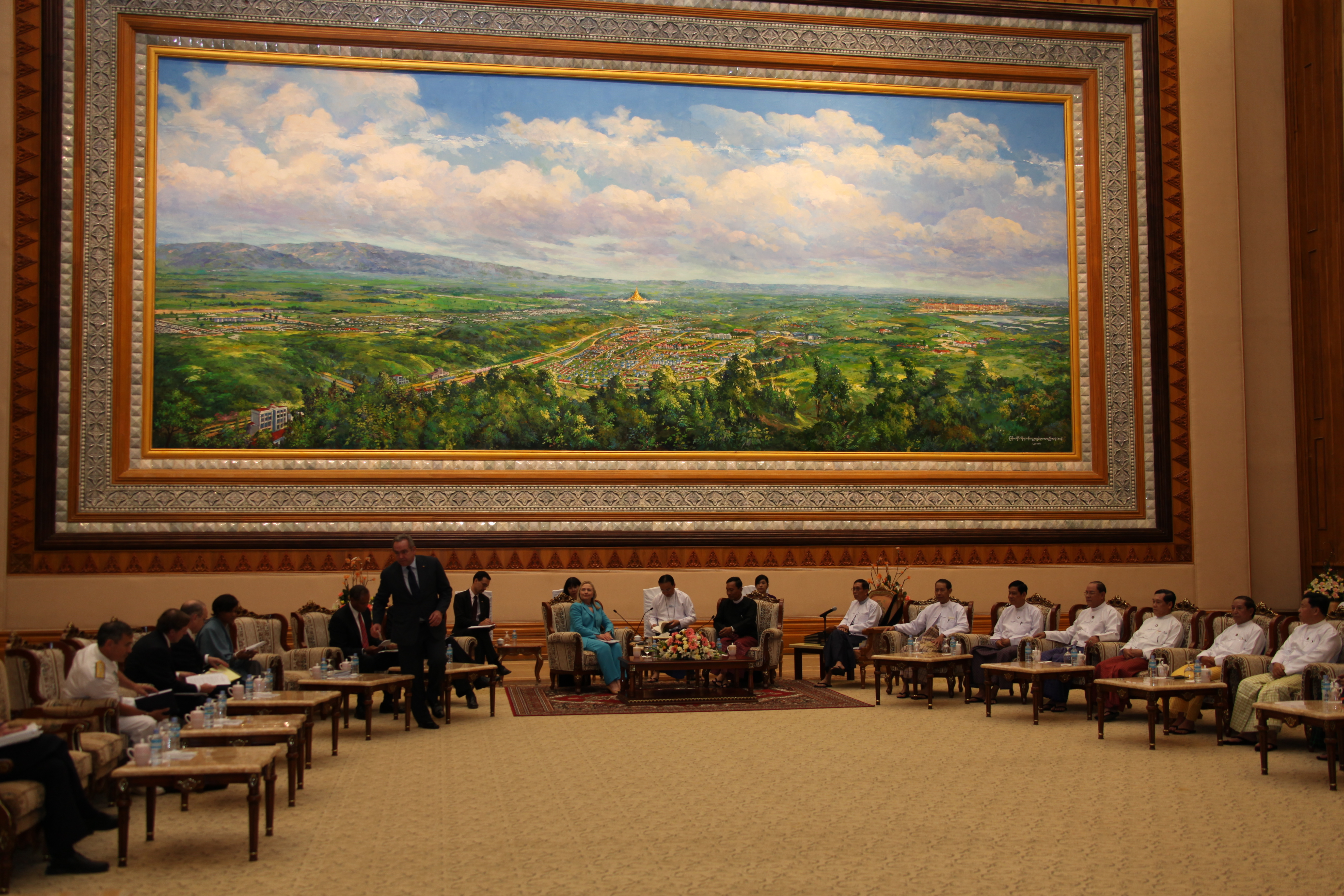 United States Secretary of State Hillary Clinton meets with Burma's lower house senators.